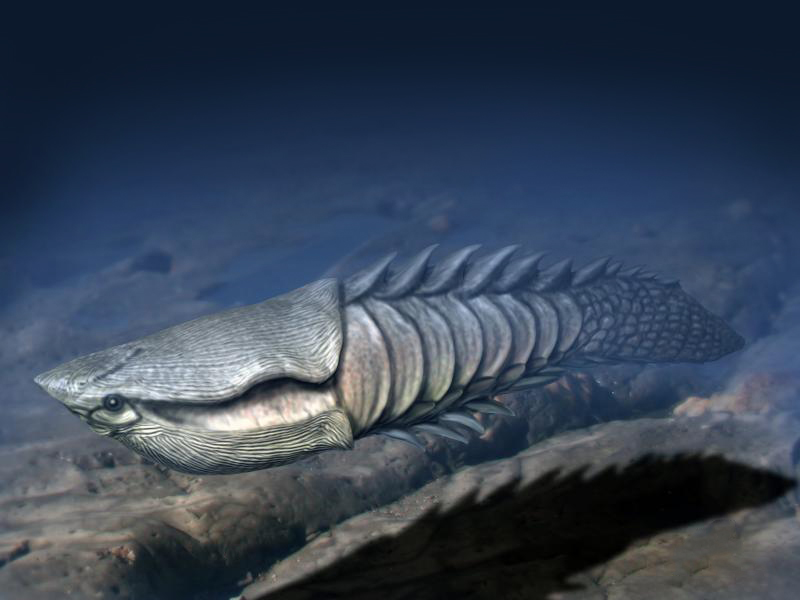 Life restoration of Anglaspis heintzi